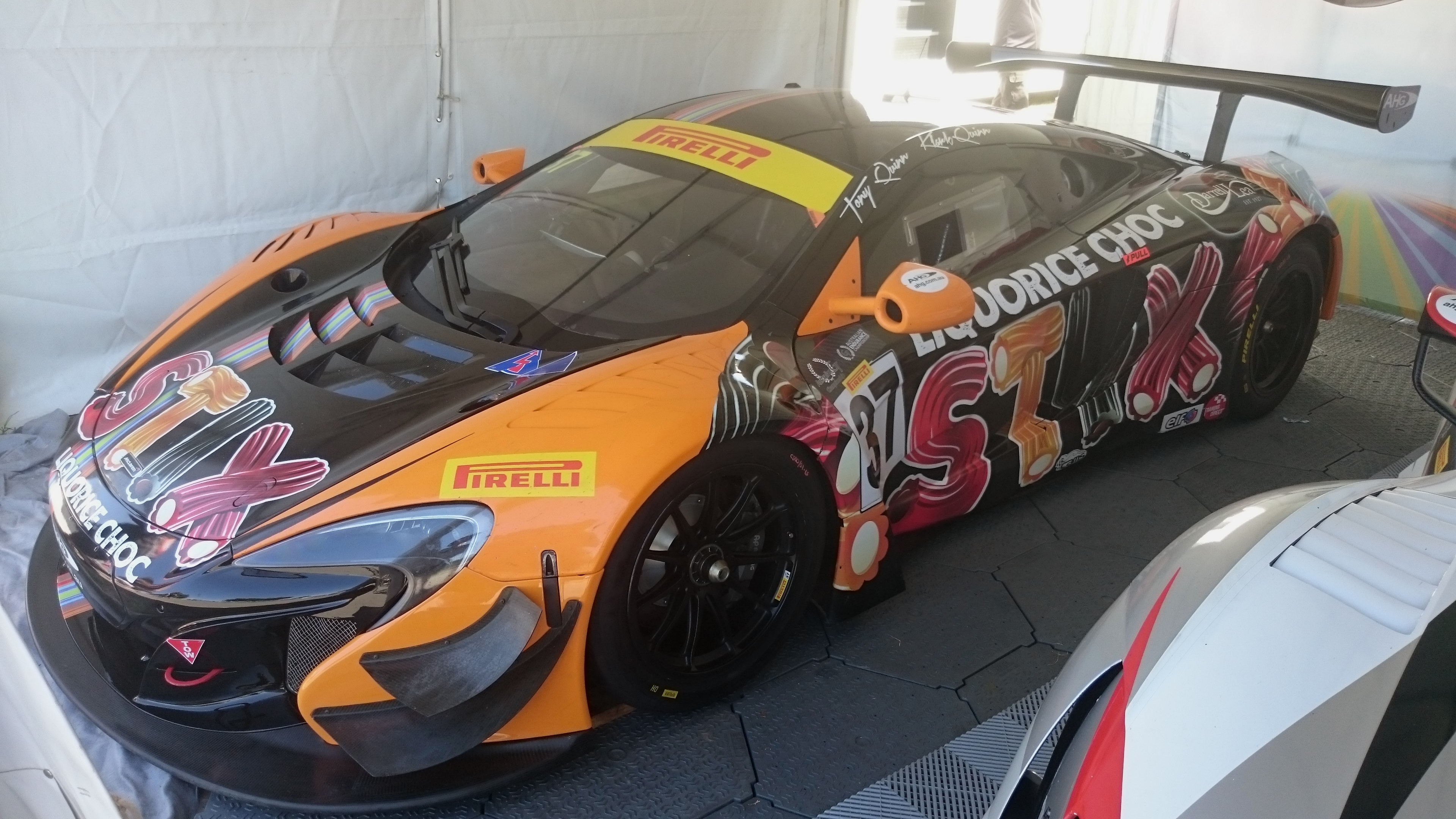 The McLaren 650S GT3 of Tony & Klark Quinn. Adelaide Parklands Circuit, Round 1, 2016 Australian GT Championship.